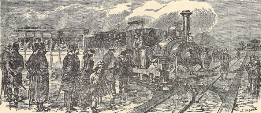 Experiments of the portuguese variant of the Larmanjat railway system, on the Epping Forest, in the United Kingdom, in December 1870. This photograph was published on the Gazeta dos Caminhos de Ferro magazine No. 1225, of 1st January 1939, and scanned by the Hemeroteca Municipal de Lisboa.